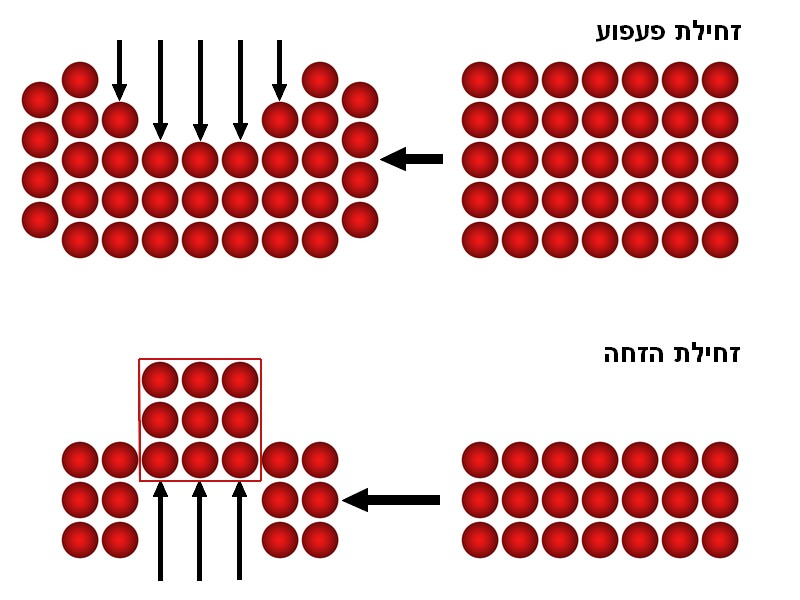 Creep deformation: diffusion creep (above) and dislocation creep (below)